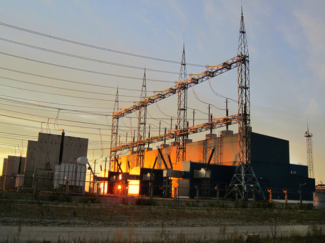 Bureya HPP